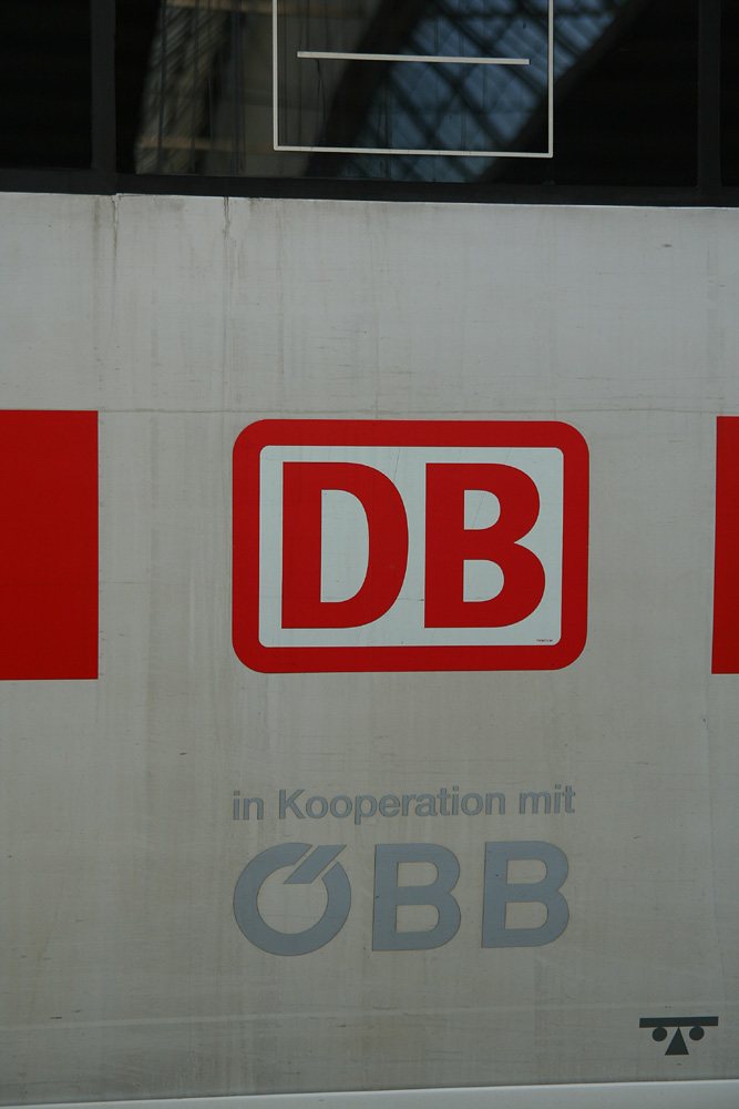 ÖBB (Austria national railways) and Deutsche Bahn logo on a an ICE T high-speed train